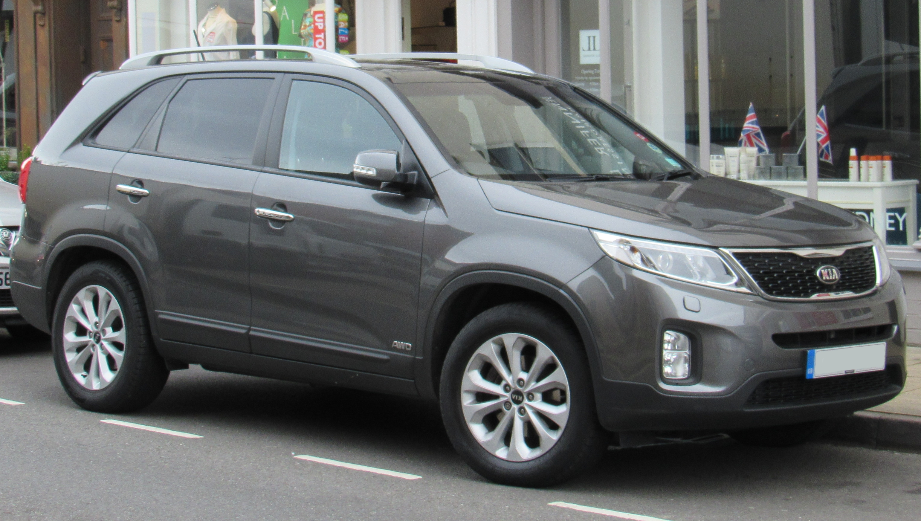 2014 Kia Sorento 2.2 KX-3 CRDi 4X4 Automatic Front Taken in Warwick